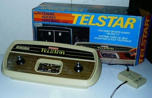 Coleco Telstar. Picture taken myself, originally for my now-defunct vintage game console/computer museum website, the VCS Museum.